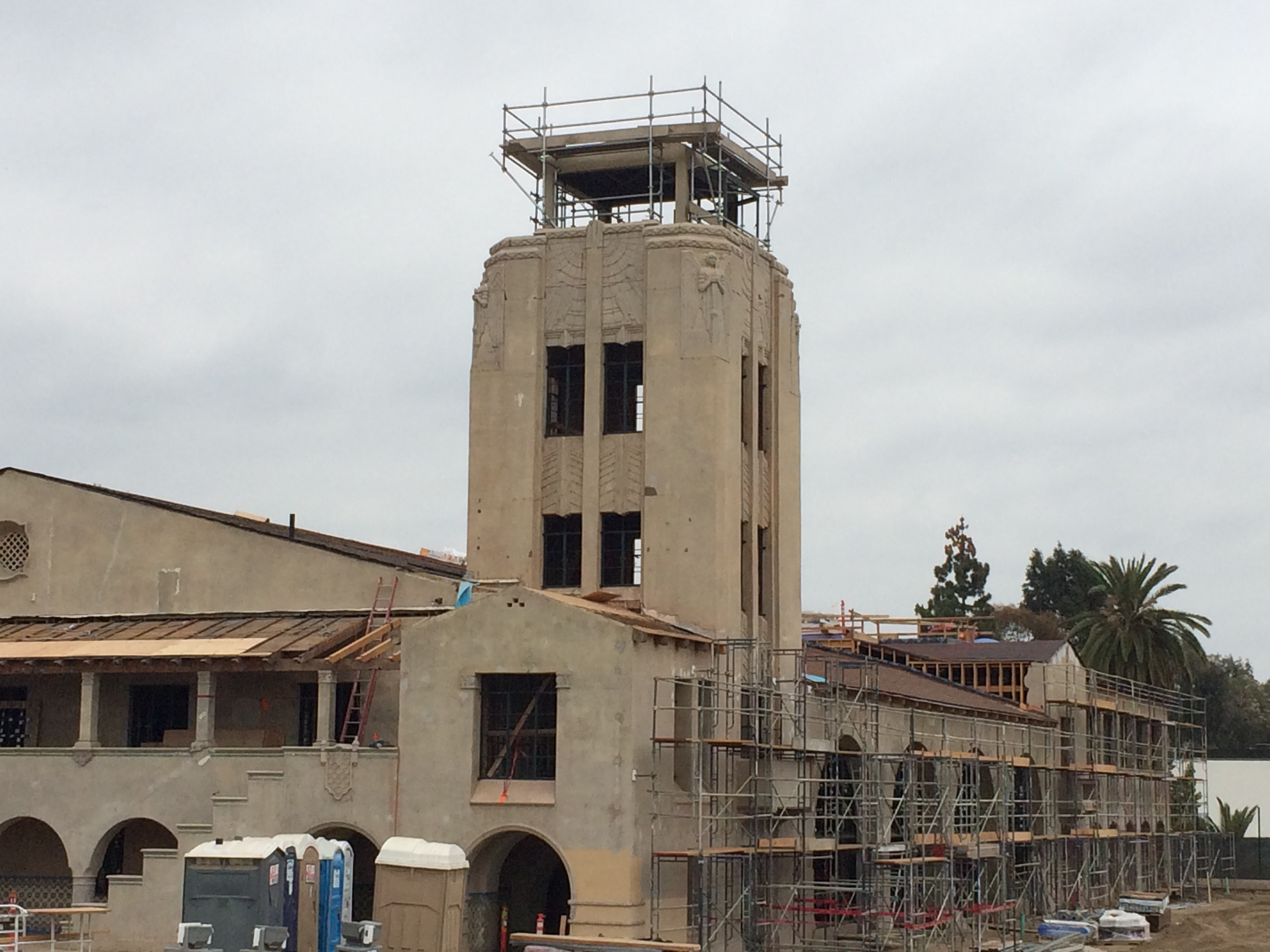 Grand Central Airport terminal building during renovation in May of 2015